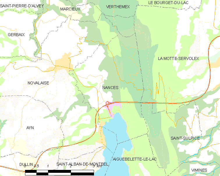 Map of French municipality